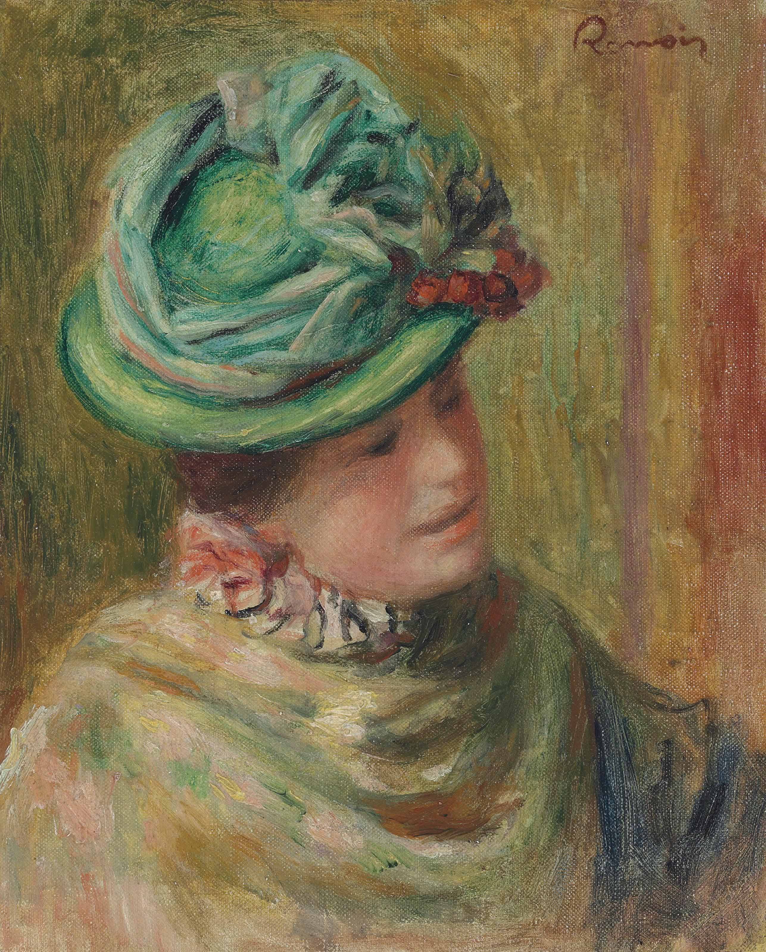 Etude, Jeanne Baudot en chapeau vert